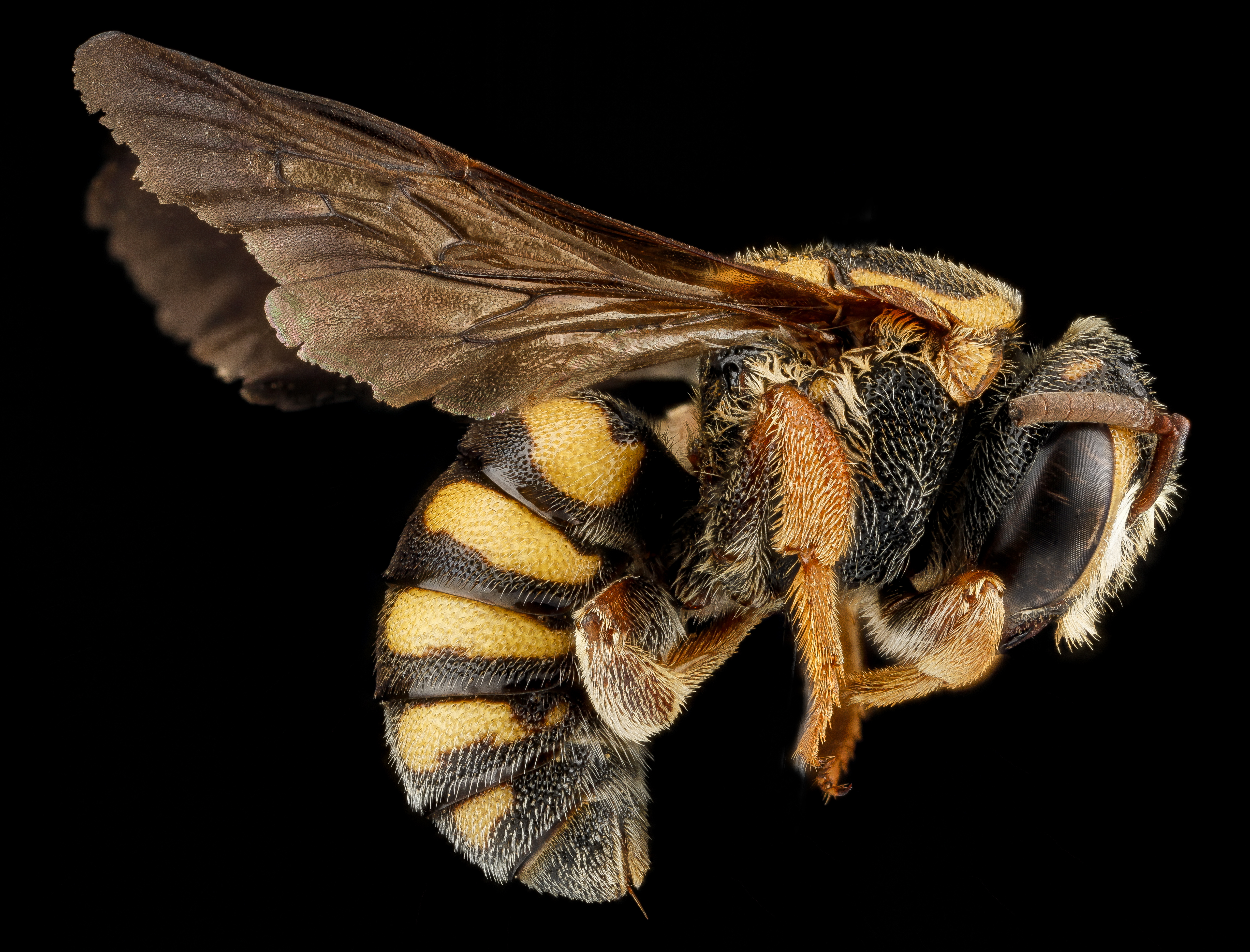 Stelis australis, F, side. Sandhills National Wildlife Refuge, South Carolina, nest parasite of other bee species